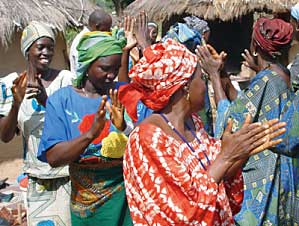 Coyah, Guinea